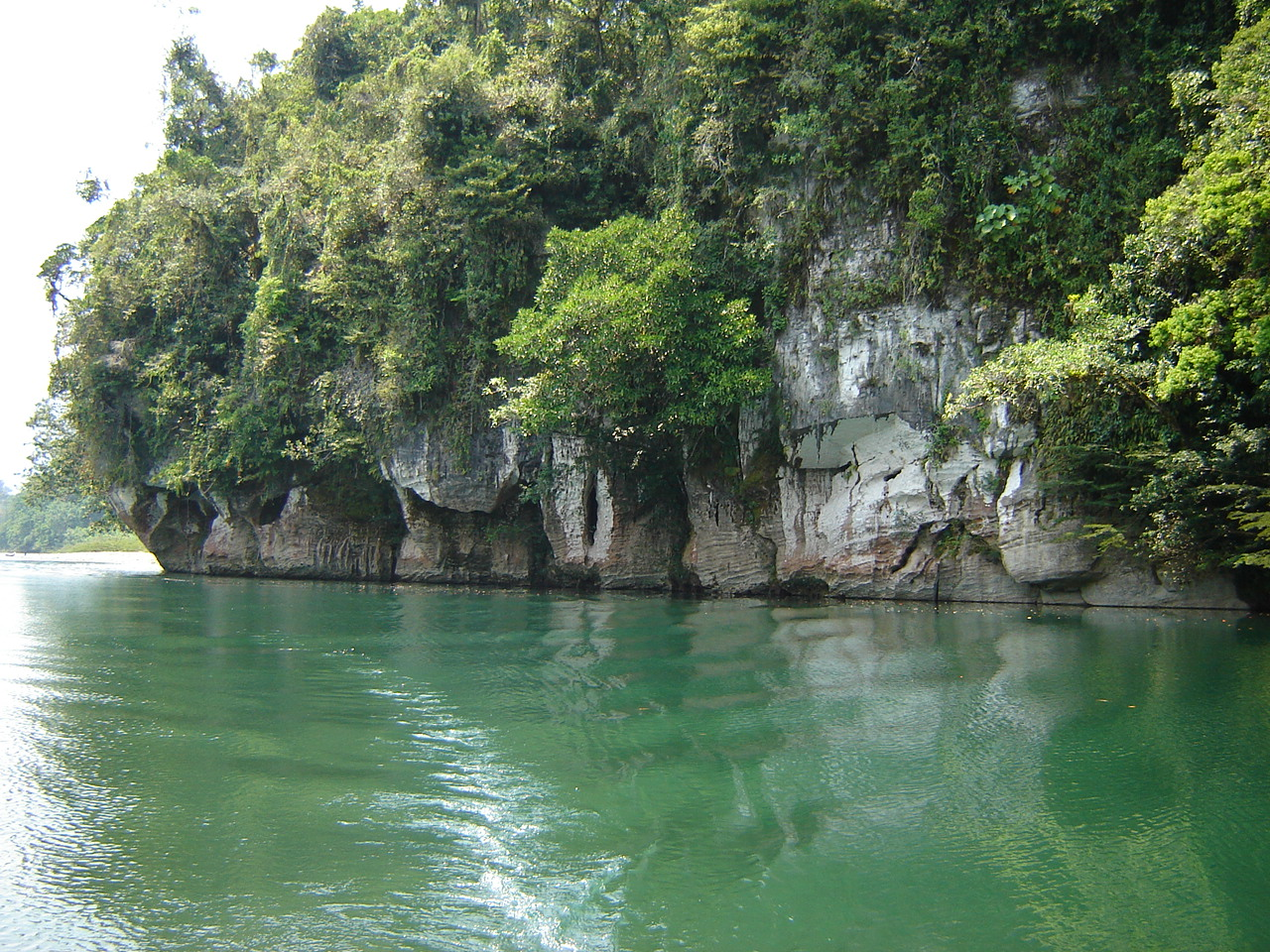 Rio Yaupi or Yaupi river outside of Logroño, Ecuador